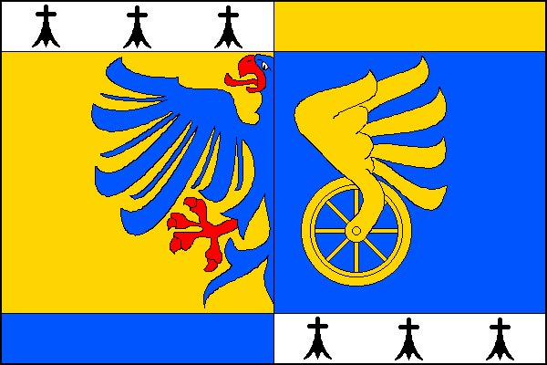 Municipal flag of Bratčice village, Kutná Hora District, Czech Republic.